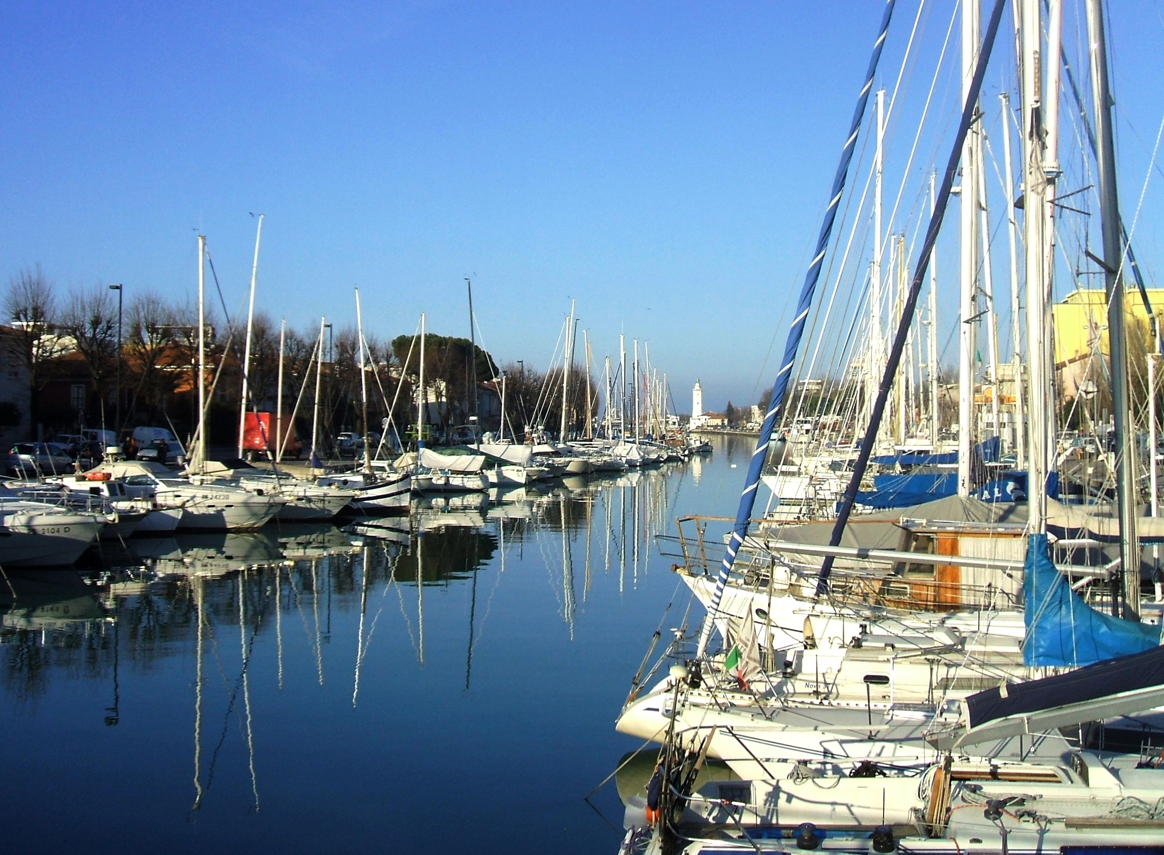 Harbour in Rimini, Italy